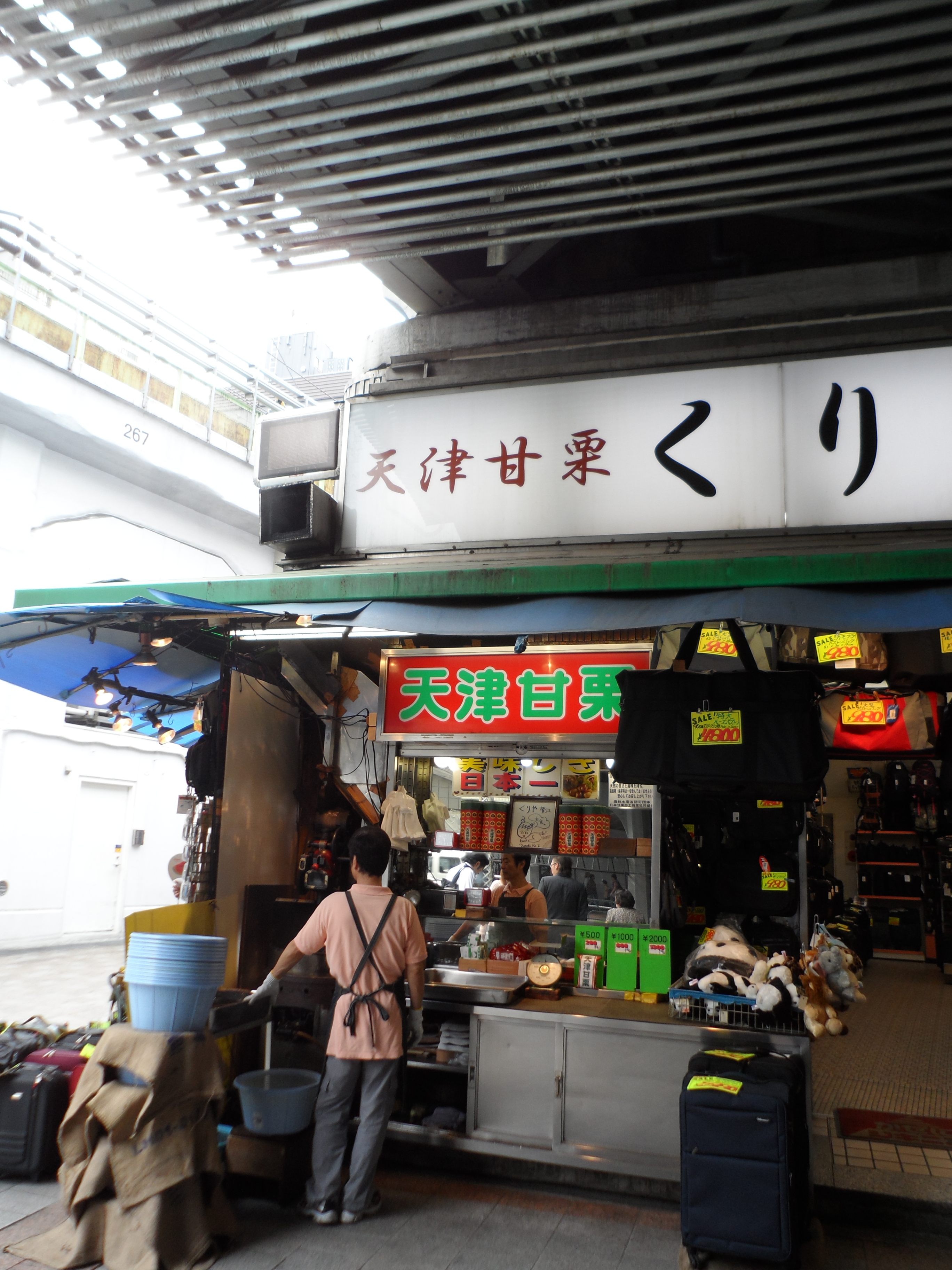 Tianjin Chestnut Stand in Tokyo